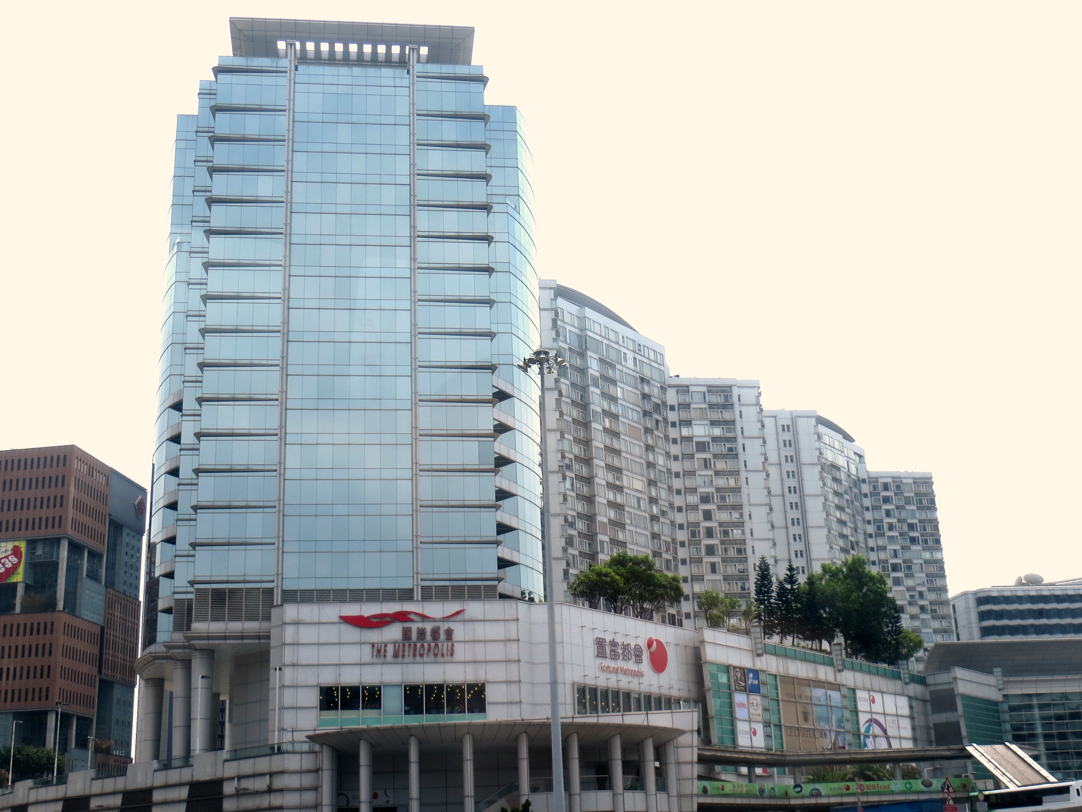 Fortune Metropolis (6 Metropolis Drive, Hung Hom, Kowloon, Hong Kong)